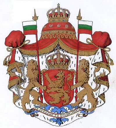 Arms of the Principality of Bulgaria 1887 Drawn by Theo van der Zalm